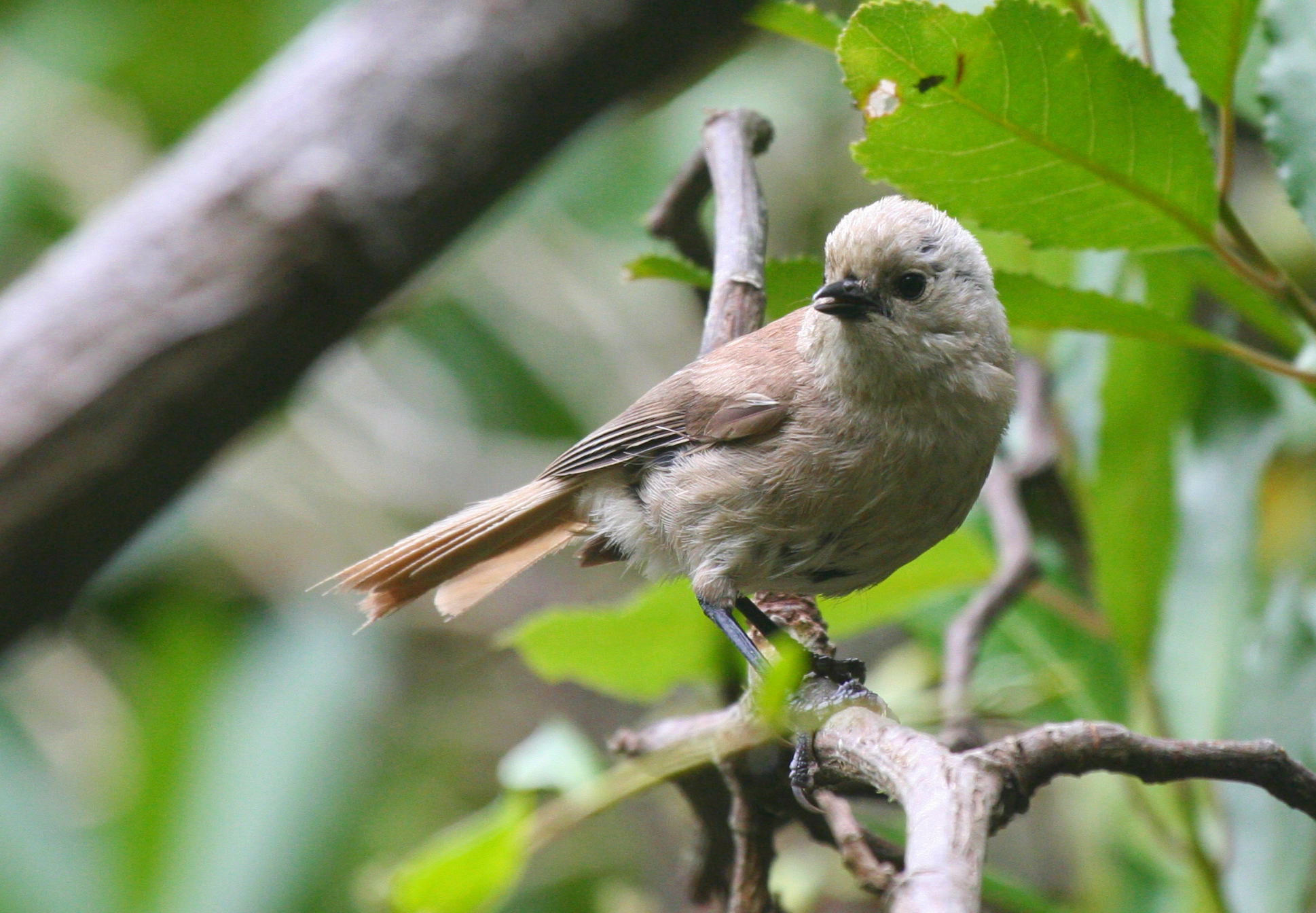 Whitehead, Mohoua albicilla, endemic to New Zealand. Note: Author requires attribution by footnote if used on Wikipedia, footnote to link to his flickr page. Suggested use: Photo by [ Roger South]